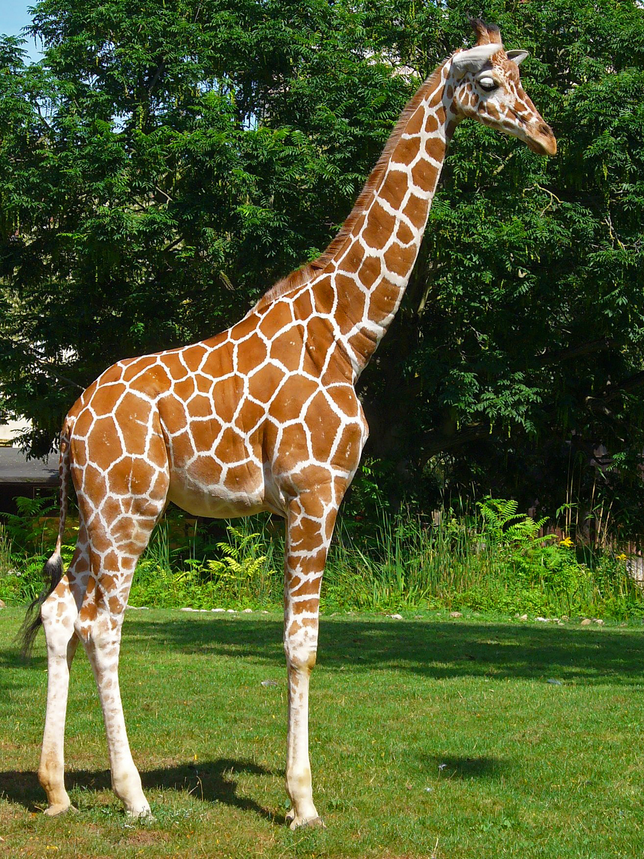 Giraffa camelopardalis reticulata, Giraffidae, Somali Giraffe, Reticulated Giraffe; Zoo Karlsruhe, Germany. The cervical muscle fibers are used in homeopathy as remedy: Giraffa camelopardalis (Giraf-c.)